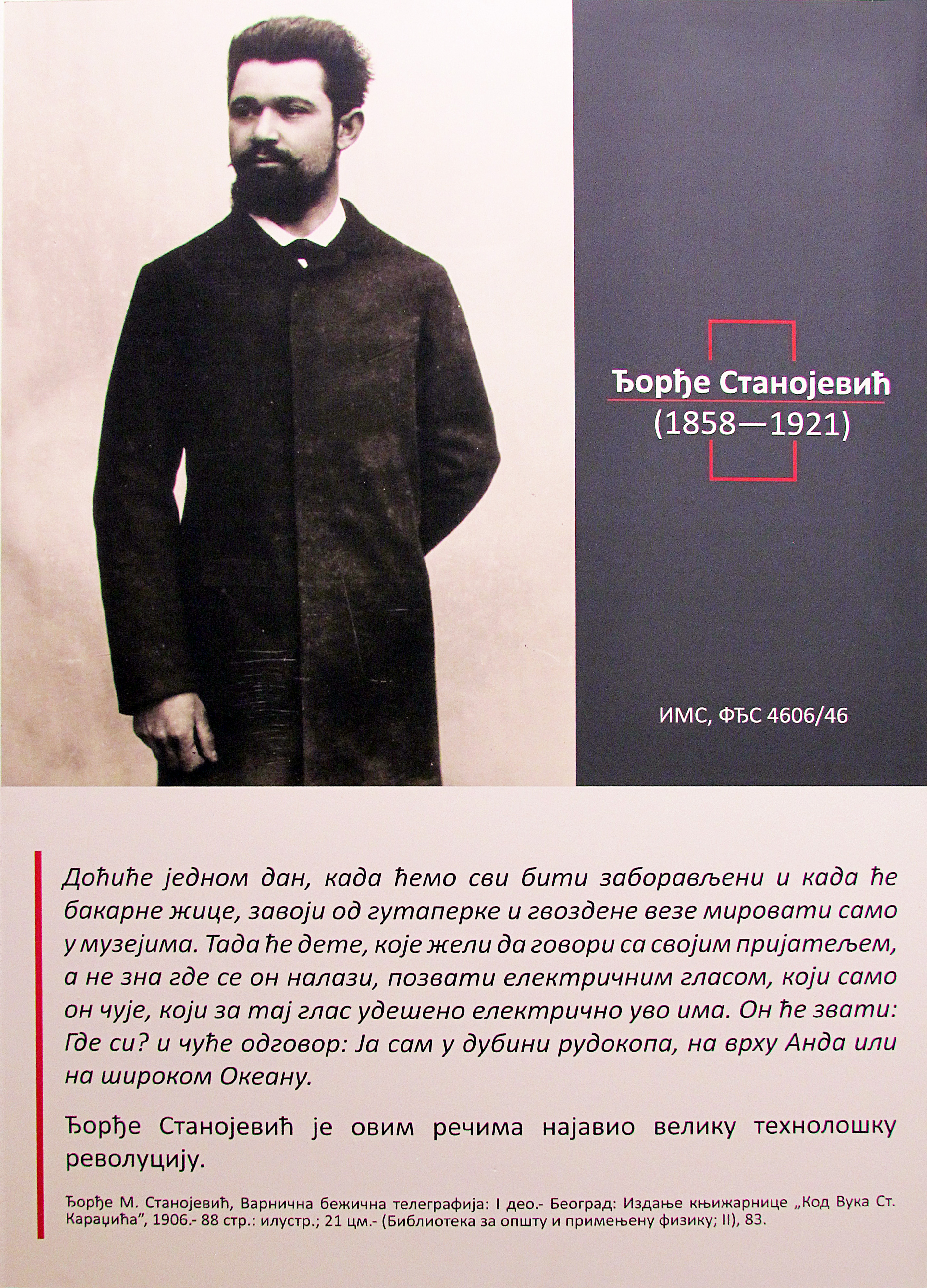 Đorđe Stanojević, University of Belgrade Rector 1913-19